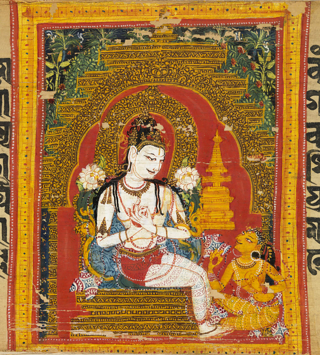 Painting of Maitreya Bodhisattva on his throne. Sanskrit Astasahasrika Prajnaparamita Sutra manuscript written in the Ranjana script. India, early 12th century.